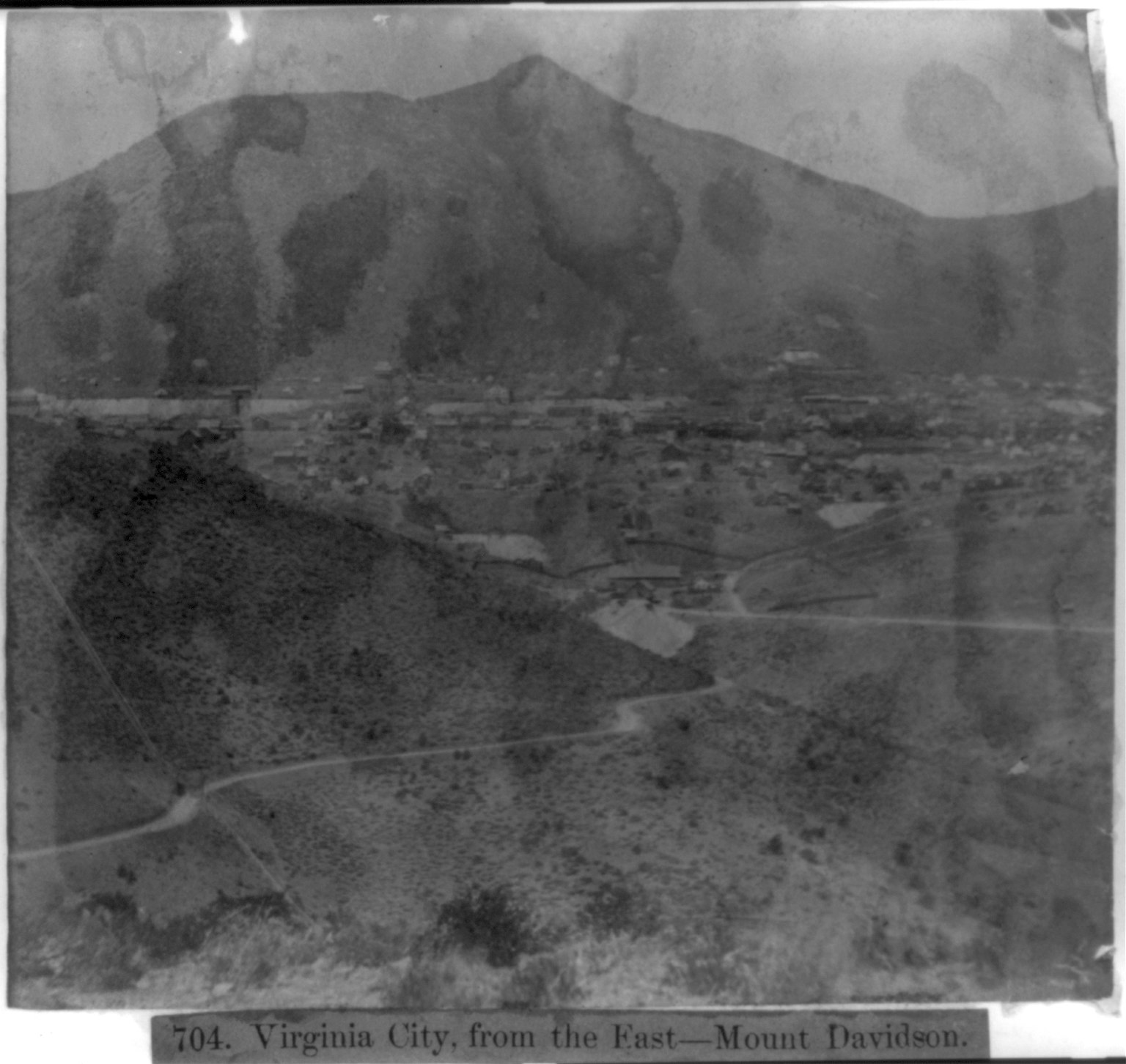 Title: Virginia City from the East--Mount Davidson Abstract/medium: 1 photographic print : half stereograph, albumen.